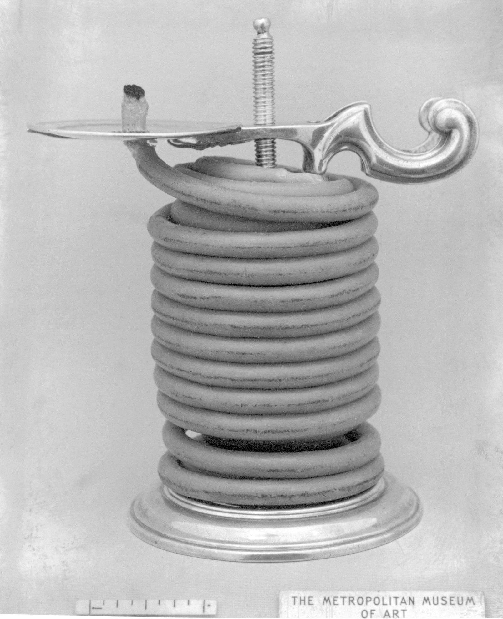 British; Wax jack; Metalwork-Silver